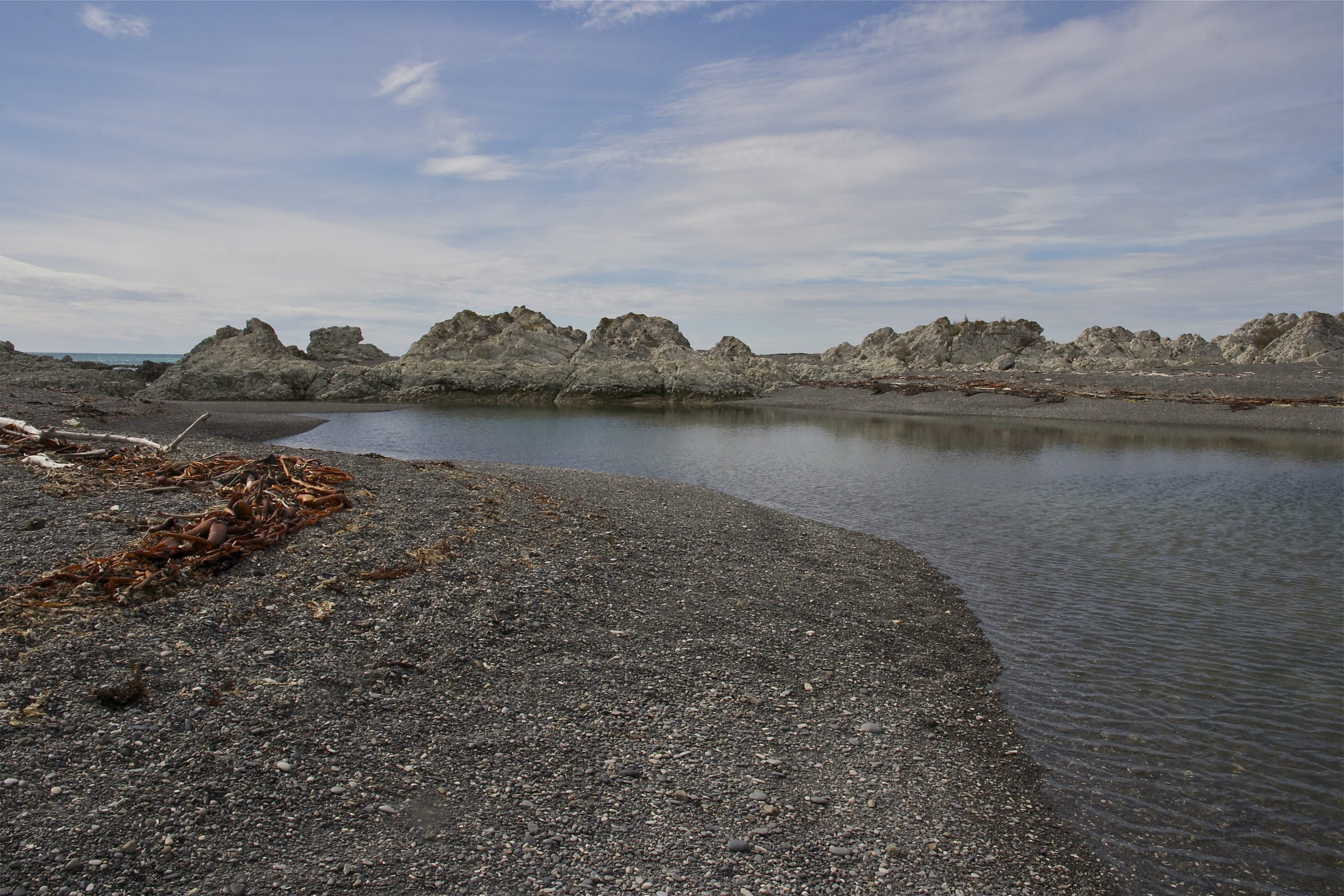 Ward Beach, where the Flaxbourne River enters the Pacific Ocean is a small and relatively isolated location but a real treasure. The local limestone is exposed on the shore lending a startling white to the rock shore formations.